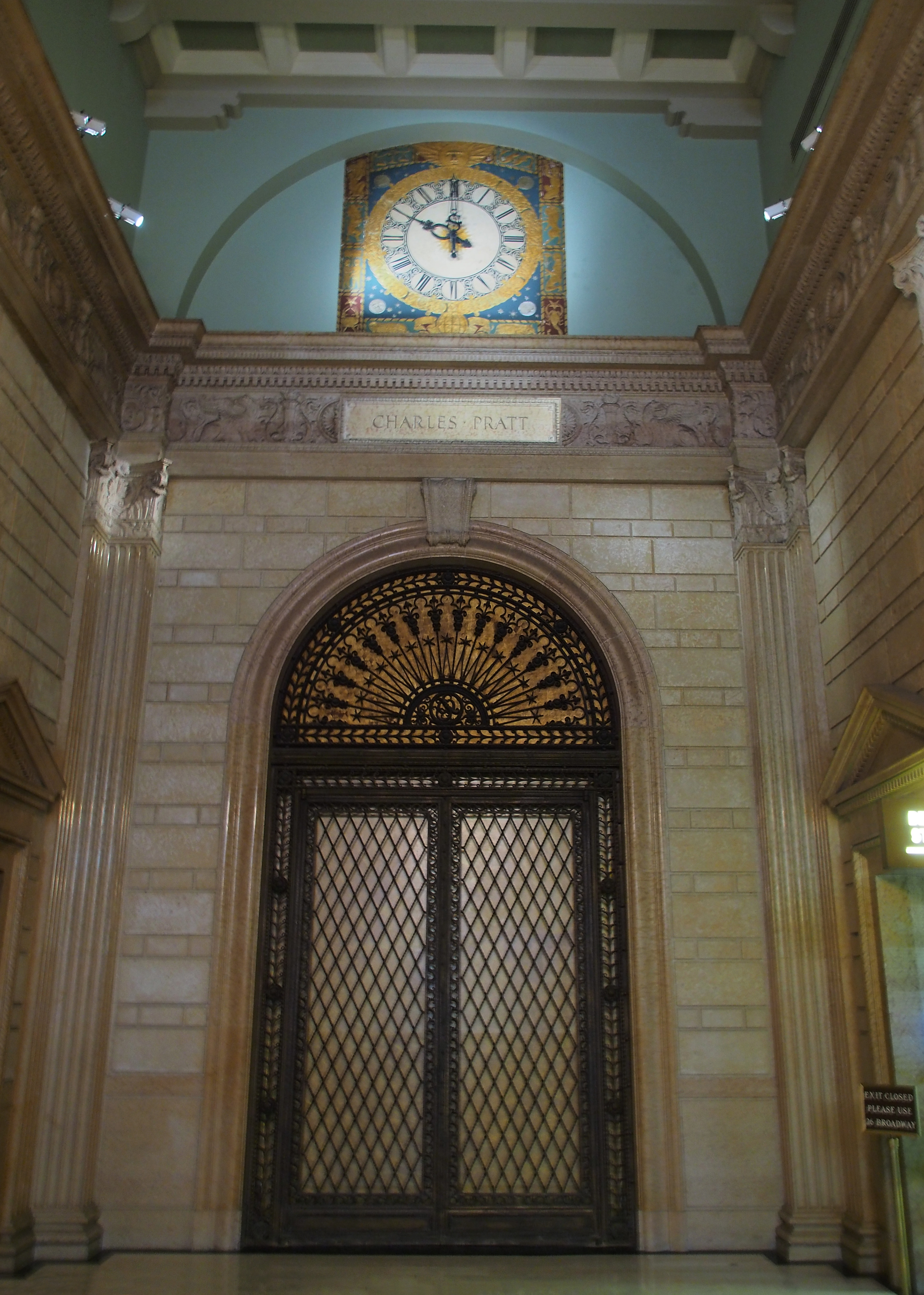 A shot of the lobby at Cornell AAP NYC Studio / Standard Oil BuildingSite: Cornell AAP NYC Studio / Standard Oil Building